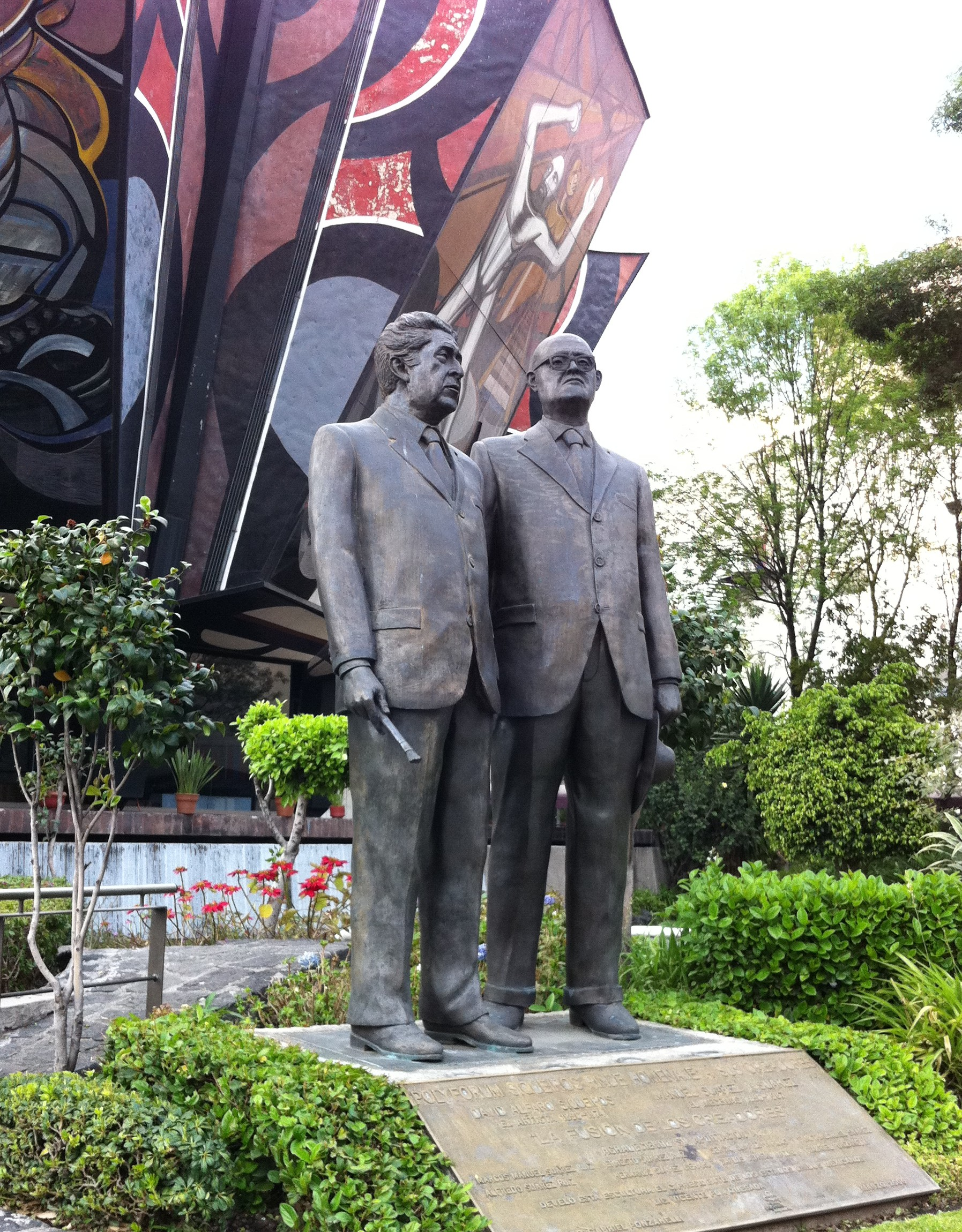 David Alfaro Siqueiros (left, with paint brush) and Manuel Suárez y Suárez (right, holding hat) in front of the Polyforum Siqueiros, Mexico City